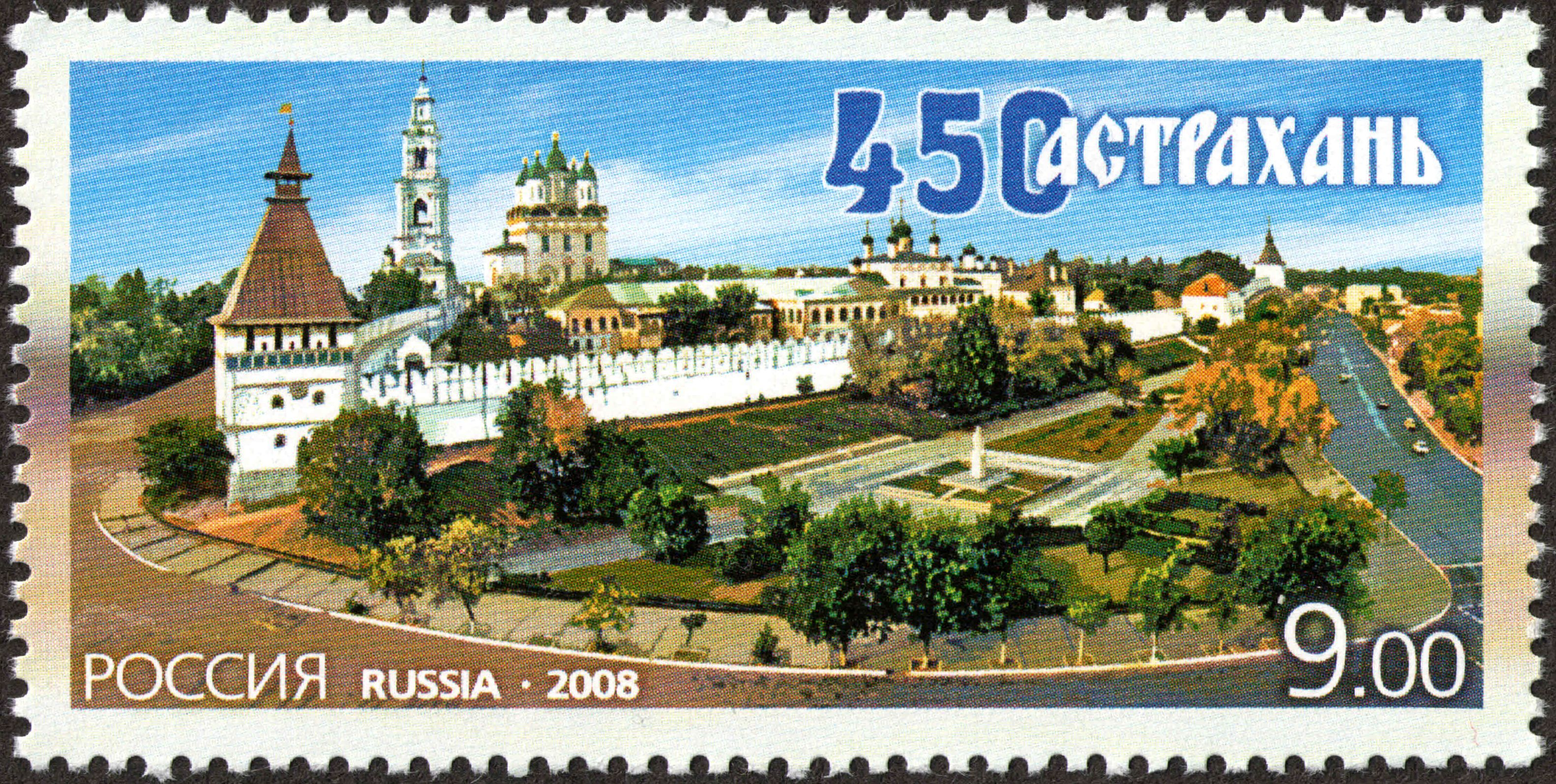 The 450th anniversary of Astrakhan, Russia. The stamp of Russia, 22 February 2008, 9.00 Rubles, PTC Marka Catalogue # 1221, Michel # 1453. The view of Astrakhan Kremlin.